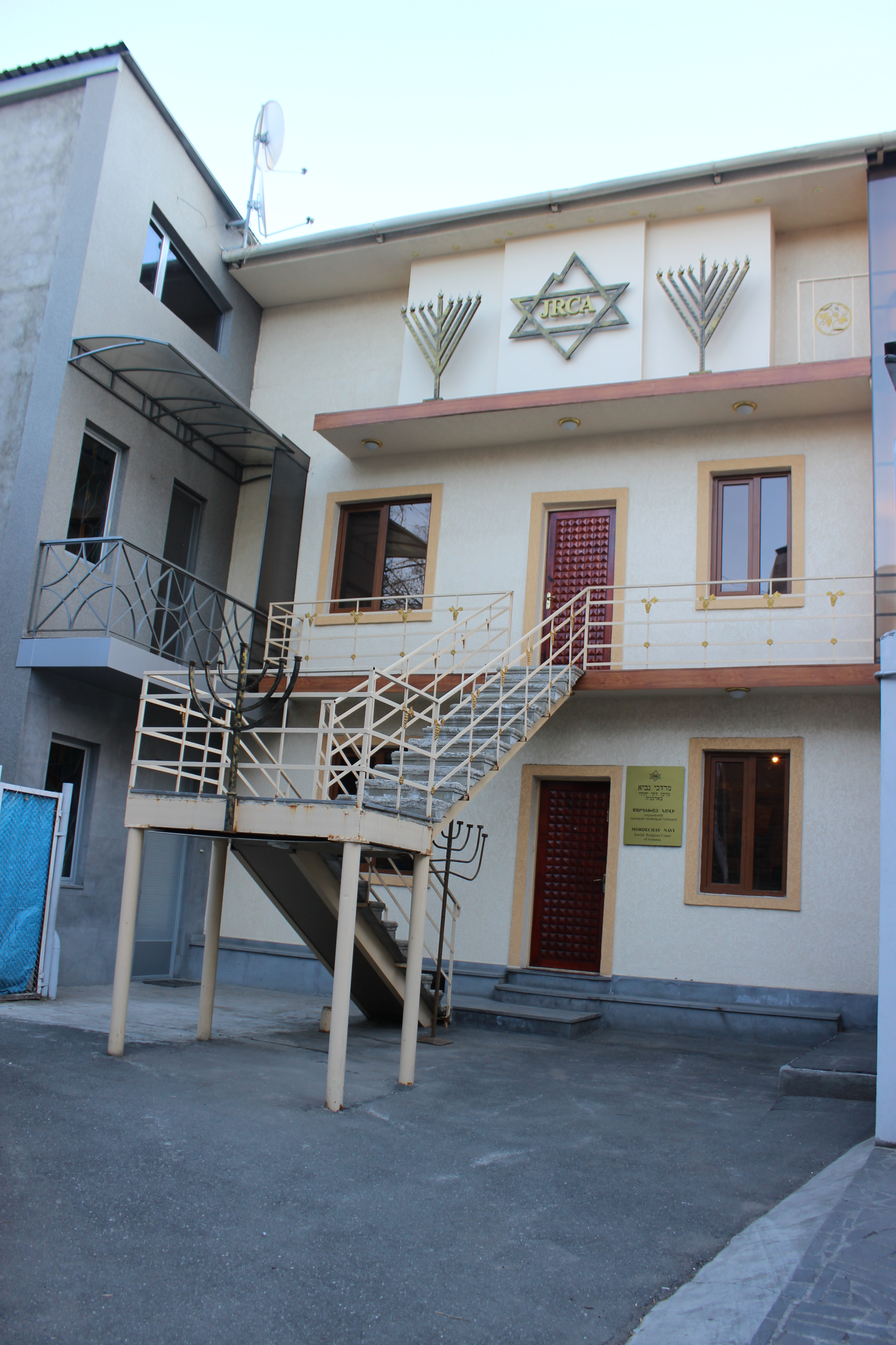 Synagogue in Yerevan, 23 Nar Dos street